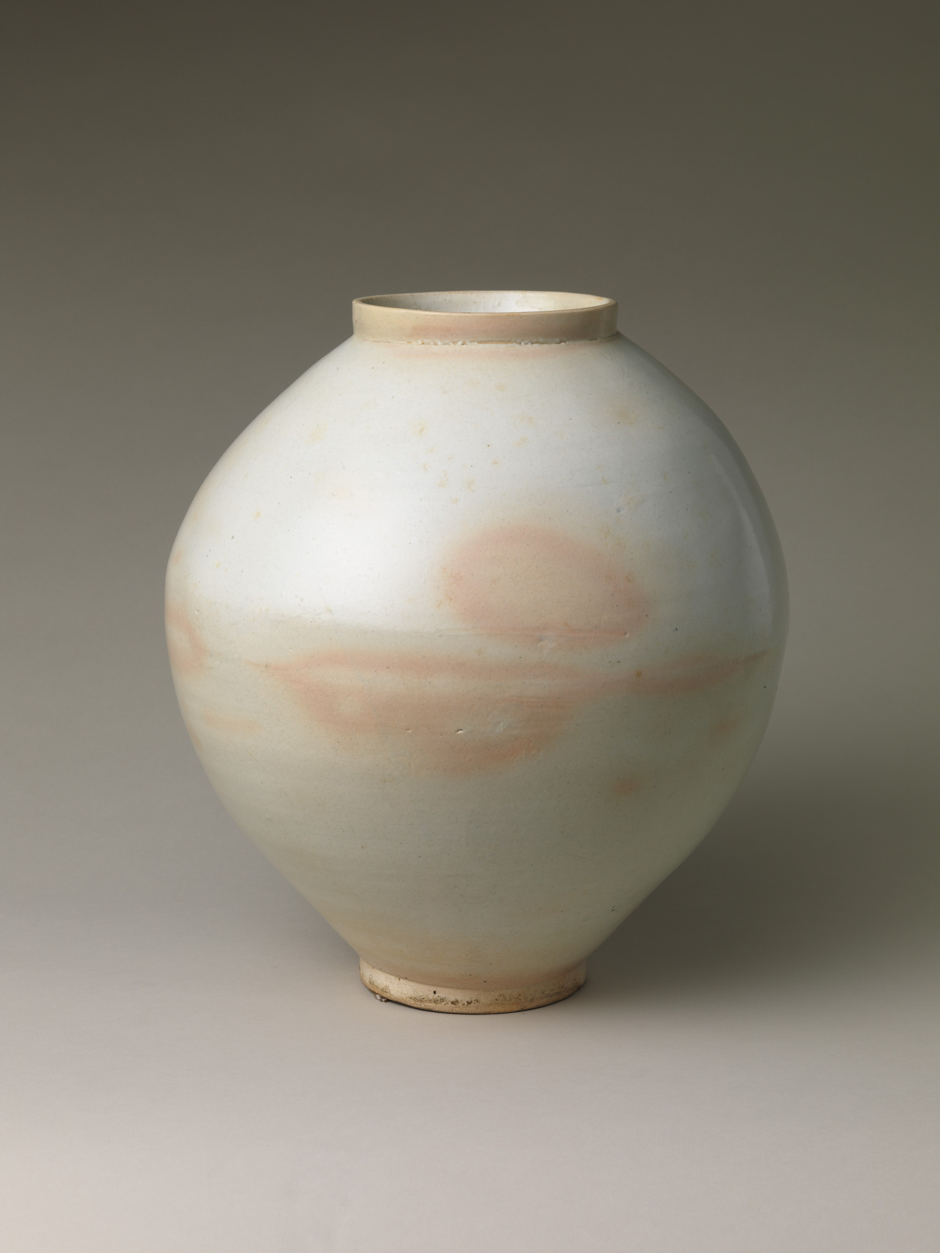 Jar; Korea; Ceramics